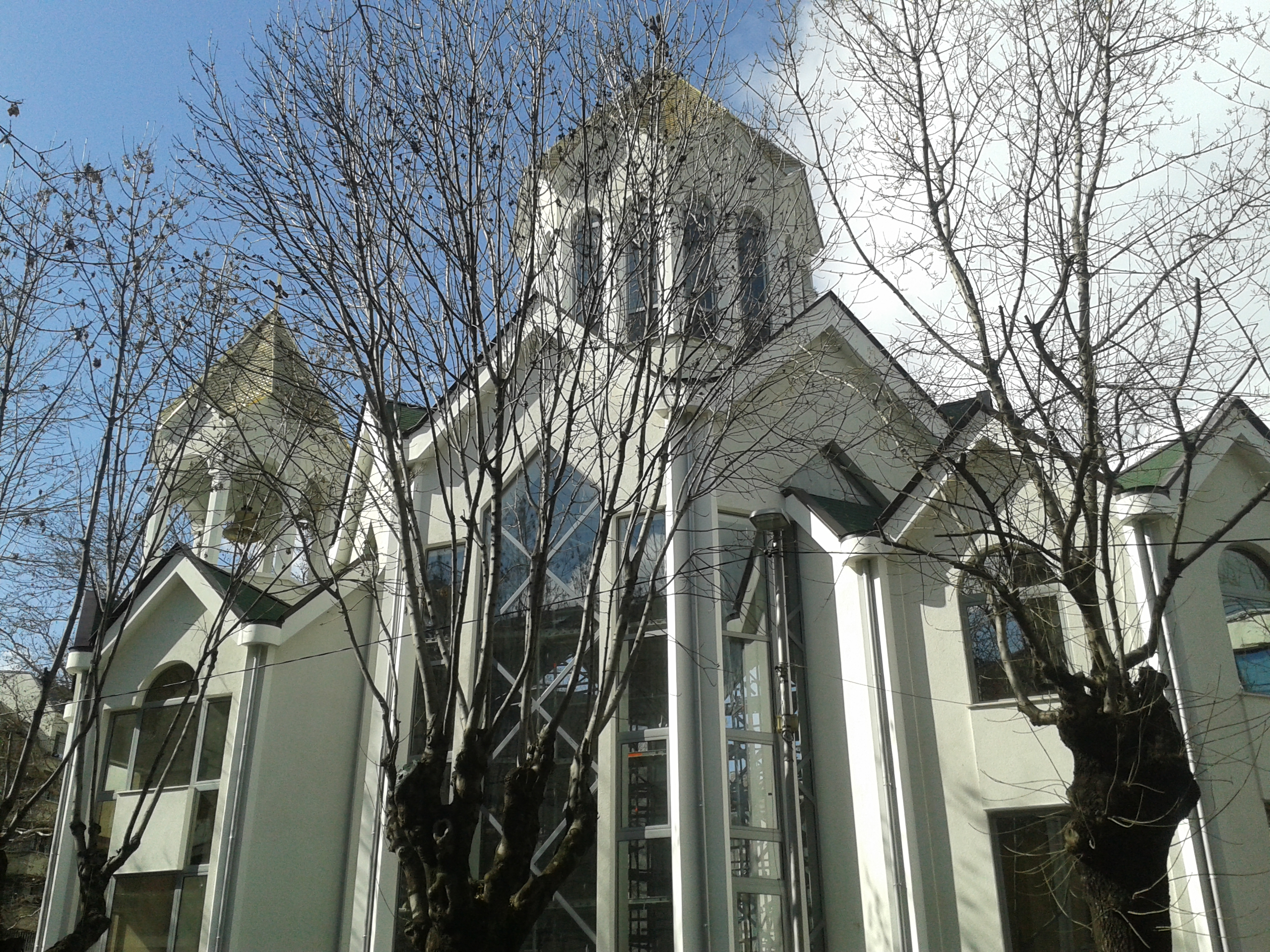 „Saint Mary“ Armenian Church in Debar Garden, Sofia, Bulgaria